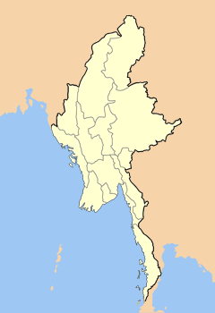 Map outlining the states and divisions of Myanmar (formerly Burma).